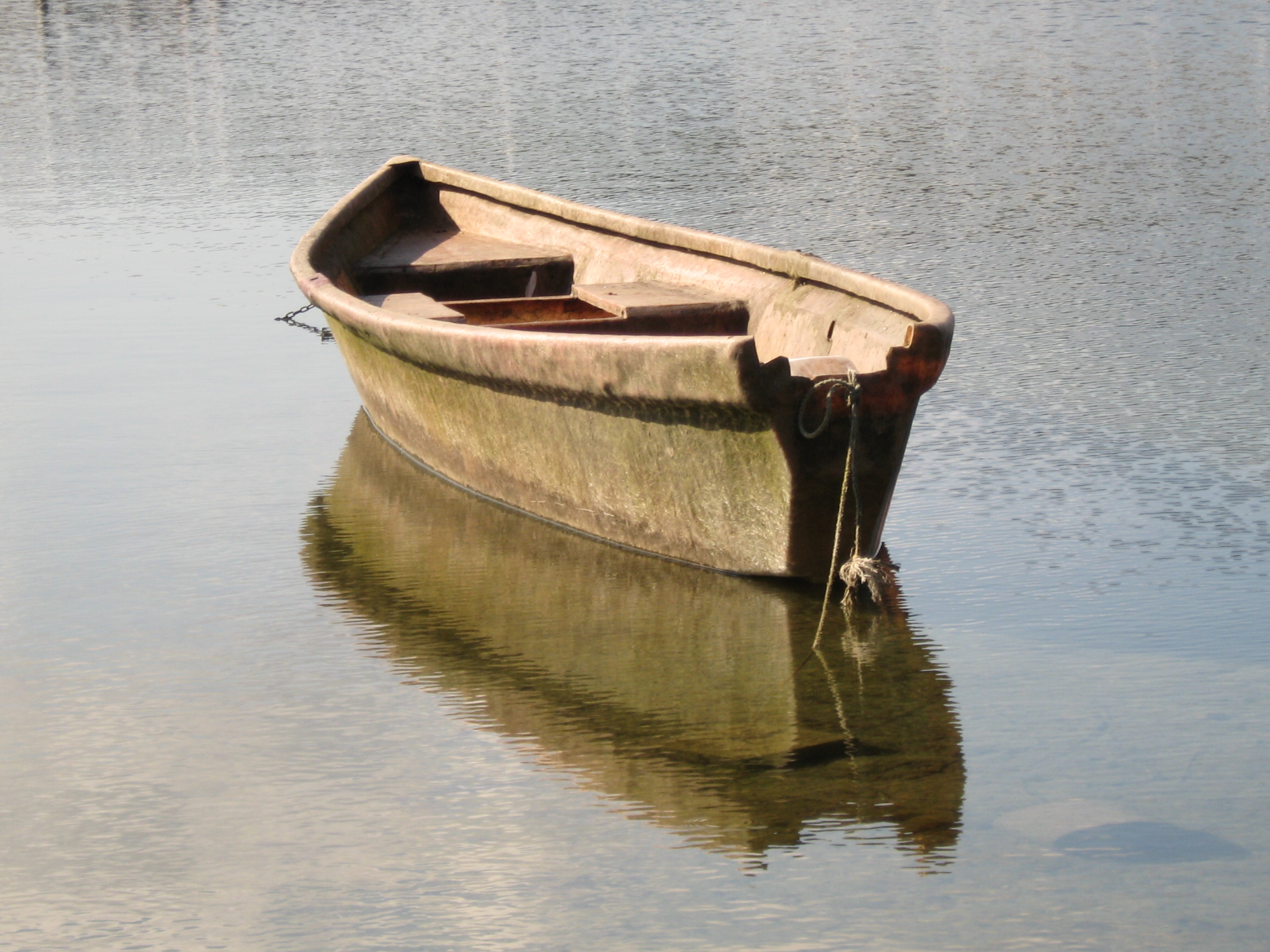 a boat